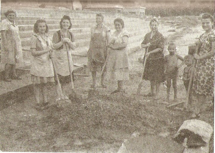 Buzanszky Stadium is under the constrution